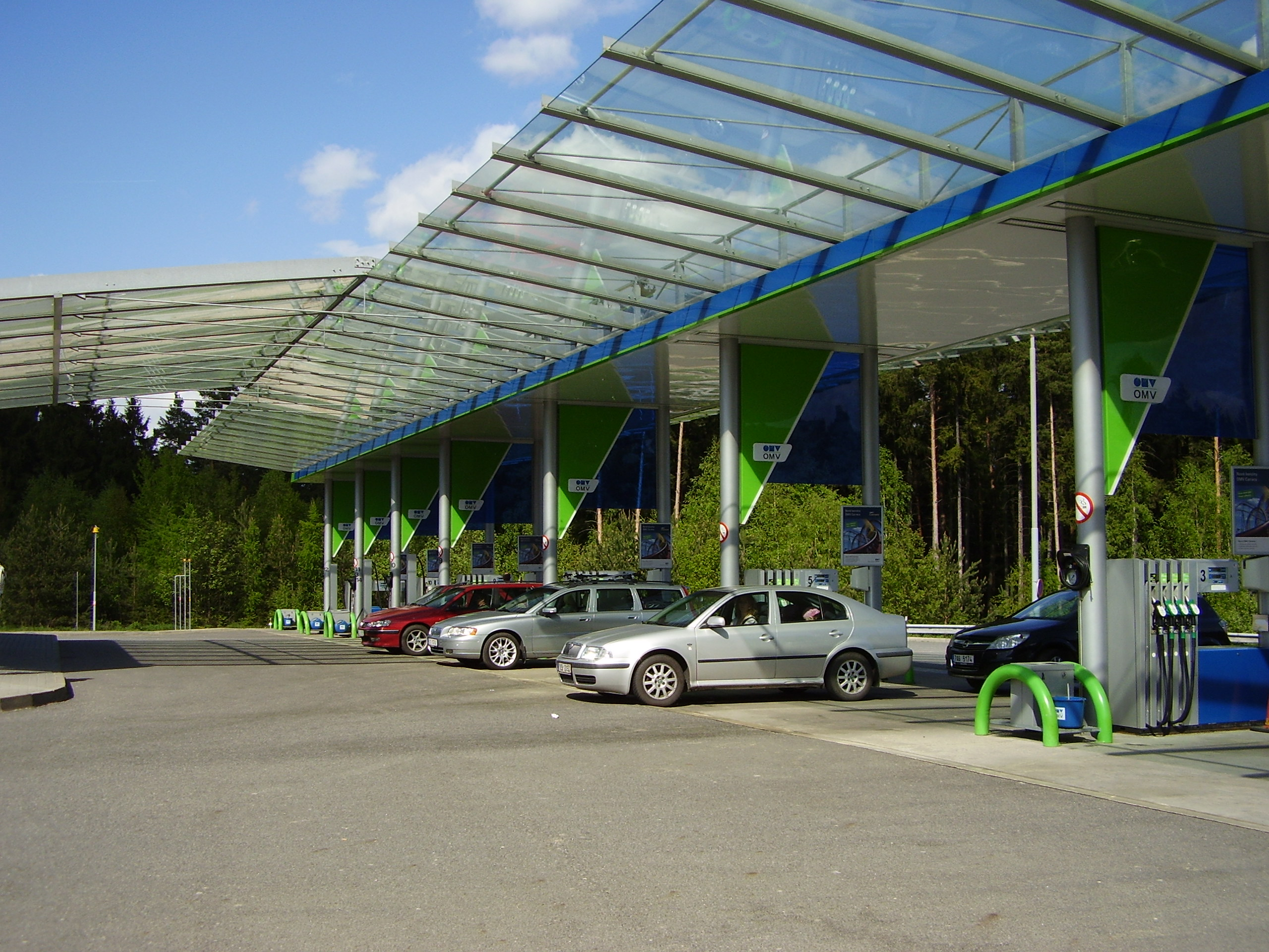 Filling station OMV